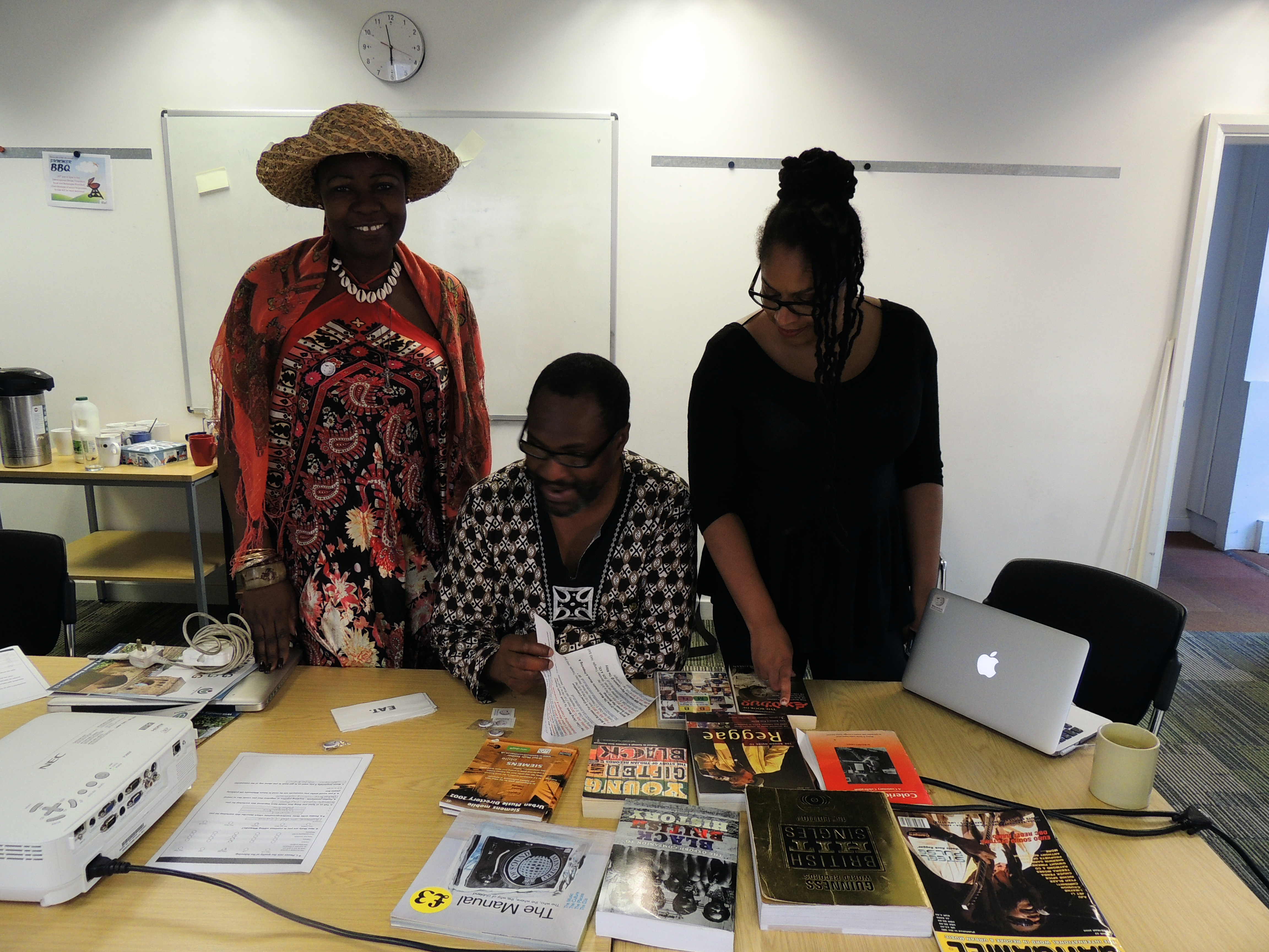 Taken at the On the photo Kwaku, one of the organisers.